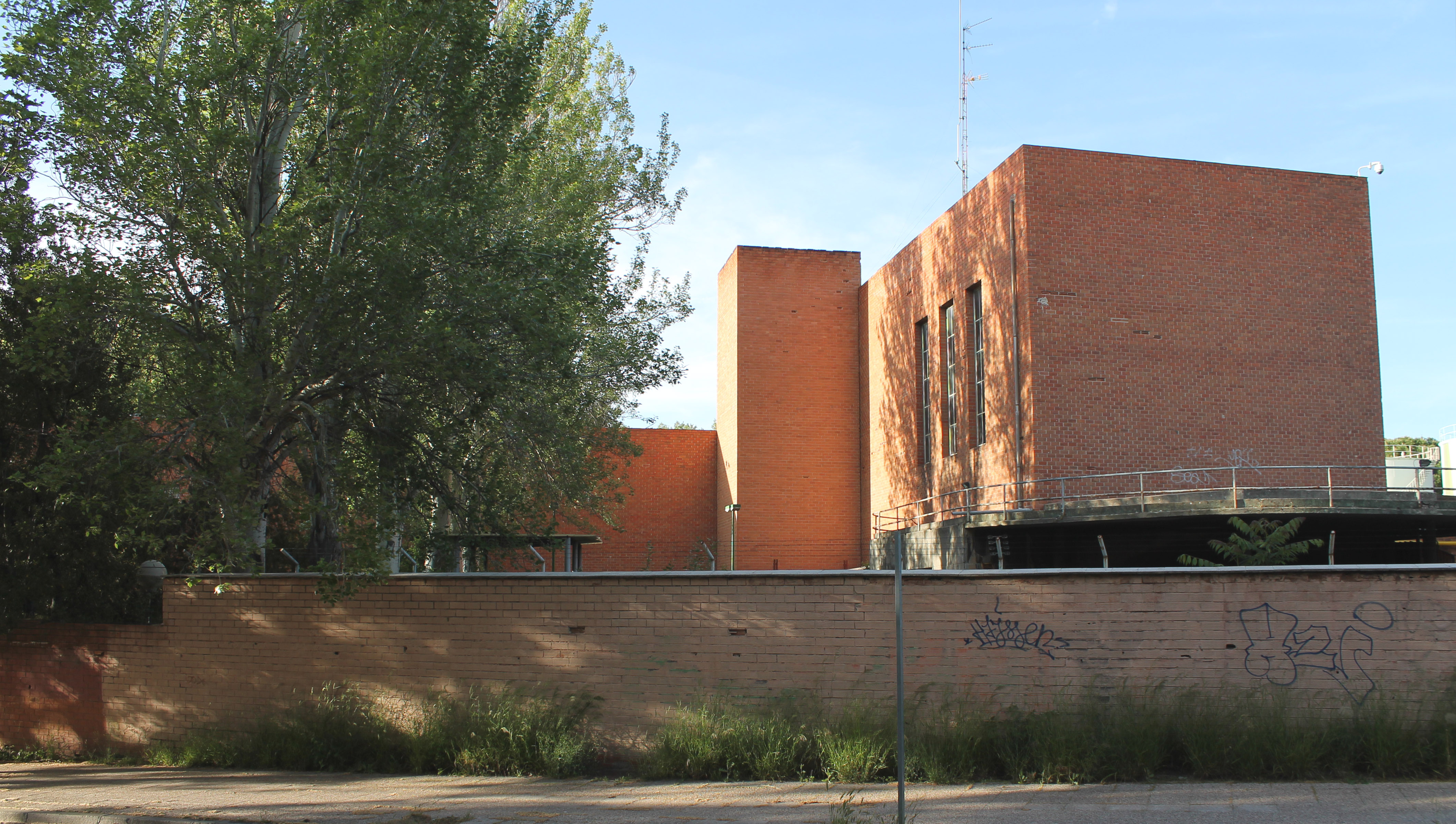 Façade of the Heating Plant of Ciudad Universitaria in Madrid (Spain). Building was designed in 1932 by Manuel Sánchez Arcas and Eduardo Torroja Miret and built between 1933 and 1935.